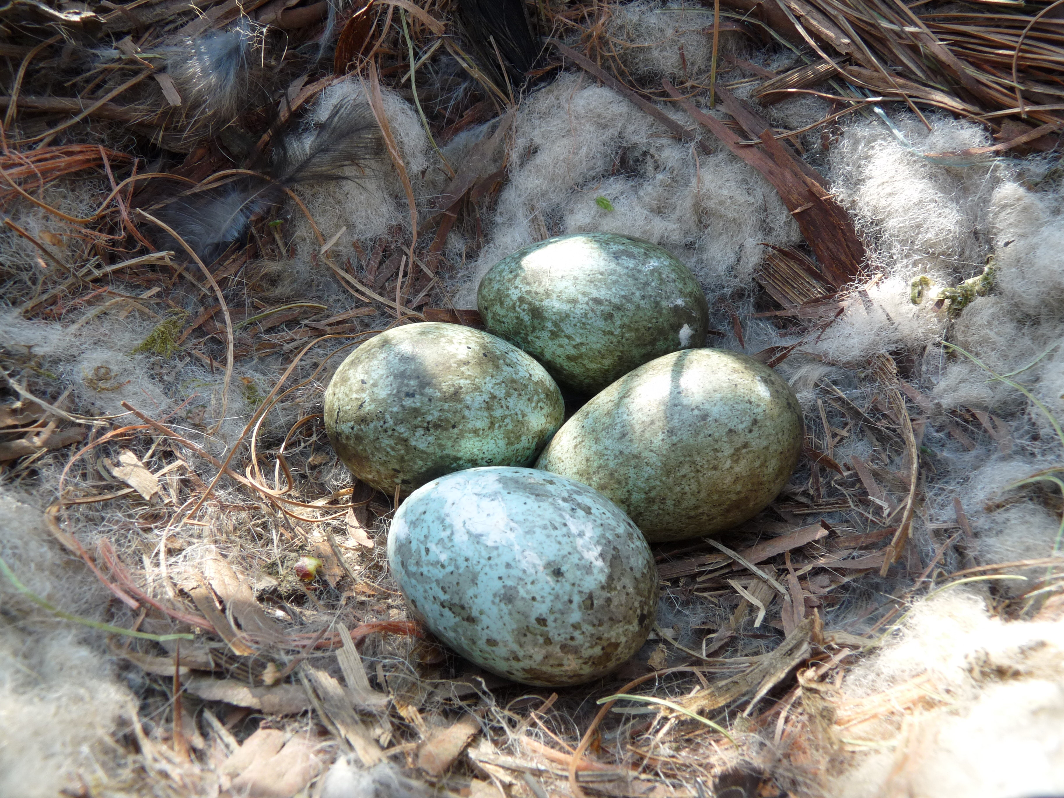 Latin name Corvus corone Family Crows and allies (Corvidae) Overview The all-black carrion crow is one of the cleverest, most adaptable of our birds. It is often quite fearless, although it can be wary of man. They are fairly solitary, usually found alone or in pairs. The closely related hooded crow has recently been split as a separate species. Carrion crows will come to gardens for food and although often cautious initially, they soon learn when it is safe, and will return repeatedly to take advantage of whatever is on offer. Where to see them Found almost everywhere, from the centre of cities to upland moorlands, and from woodlands to seashore. When to see them All year round. What they eat Carrion, insects, worms, seeds, fruit and any scraps.